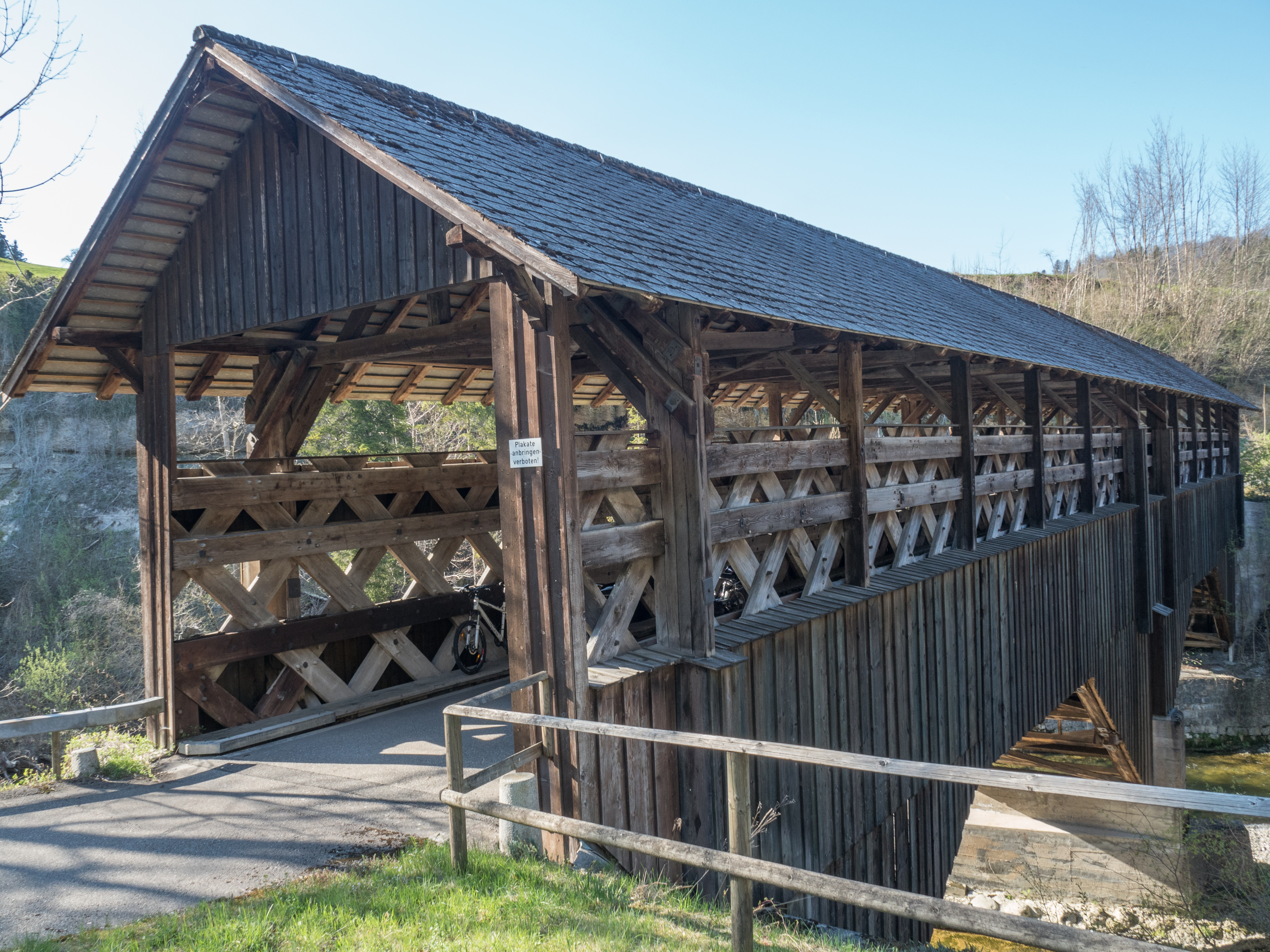 Anzenwil Covered Wooden Bridge over the Necker River, Mogelsberg - Ganterschwil, Canton of St. Gallen, Switzerland